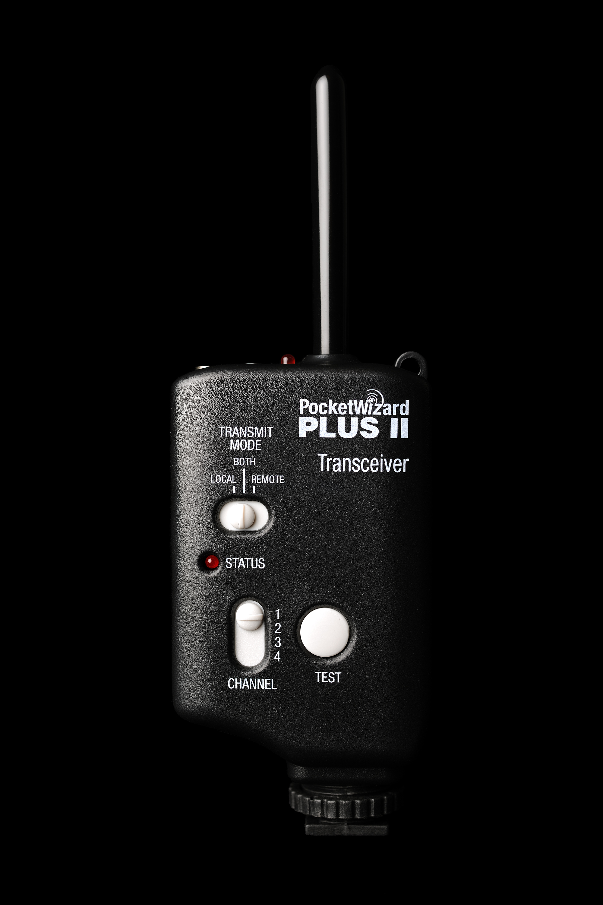 1 x D1 500 to the camera left. no modifiers.